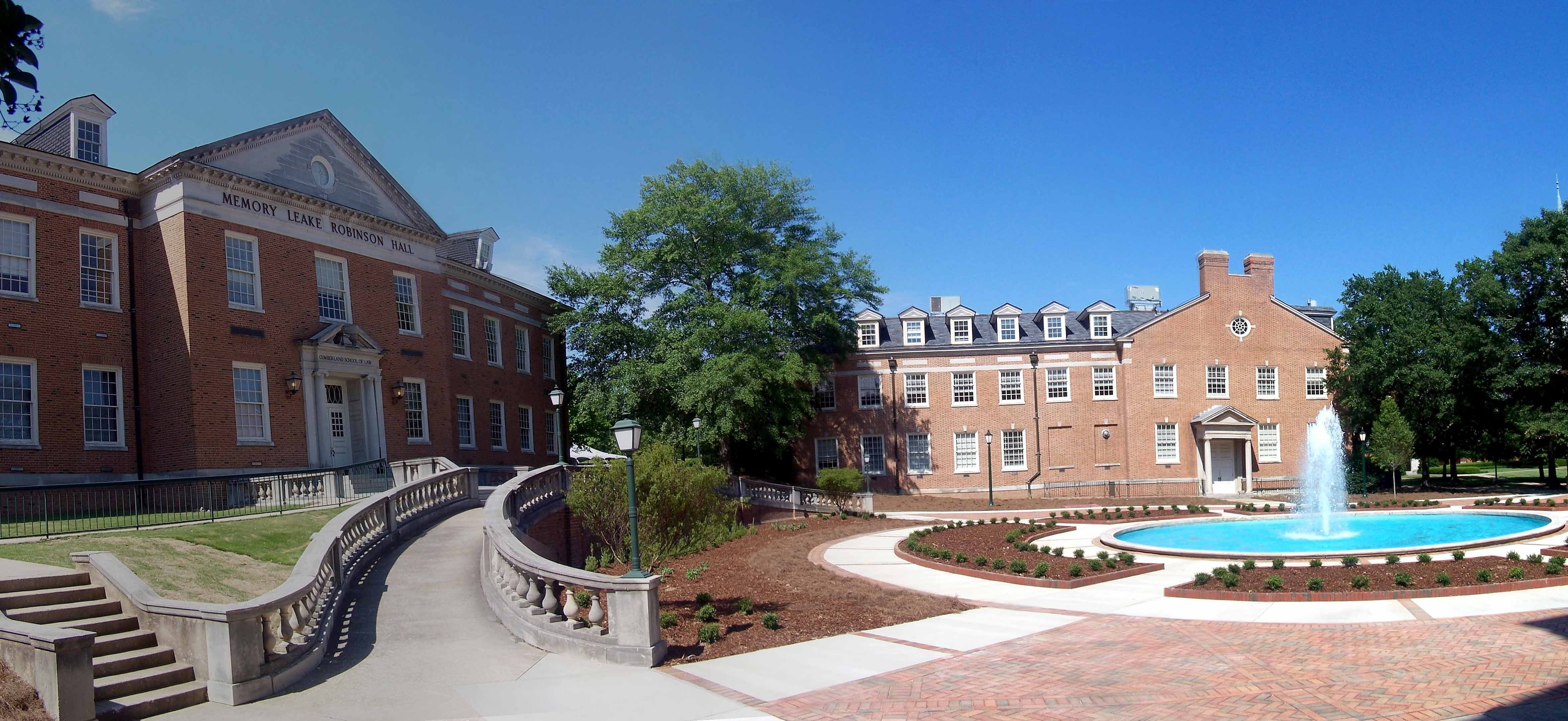 Author: Brian R. Mooney Source: Digital Photo